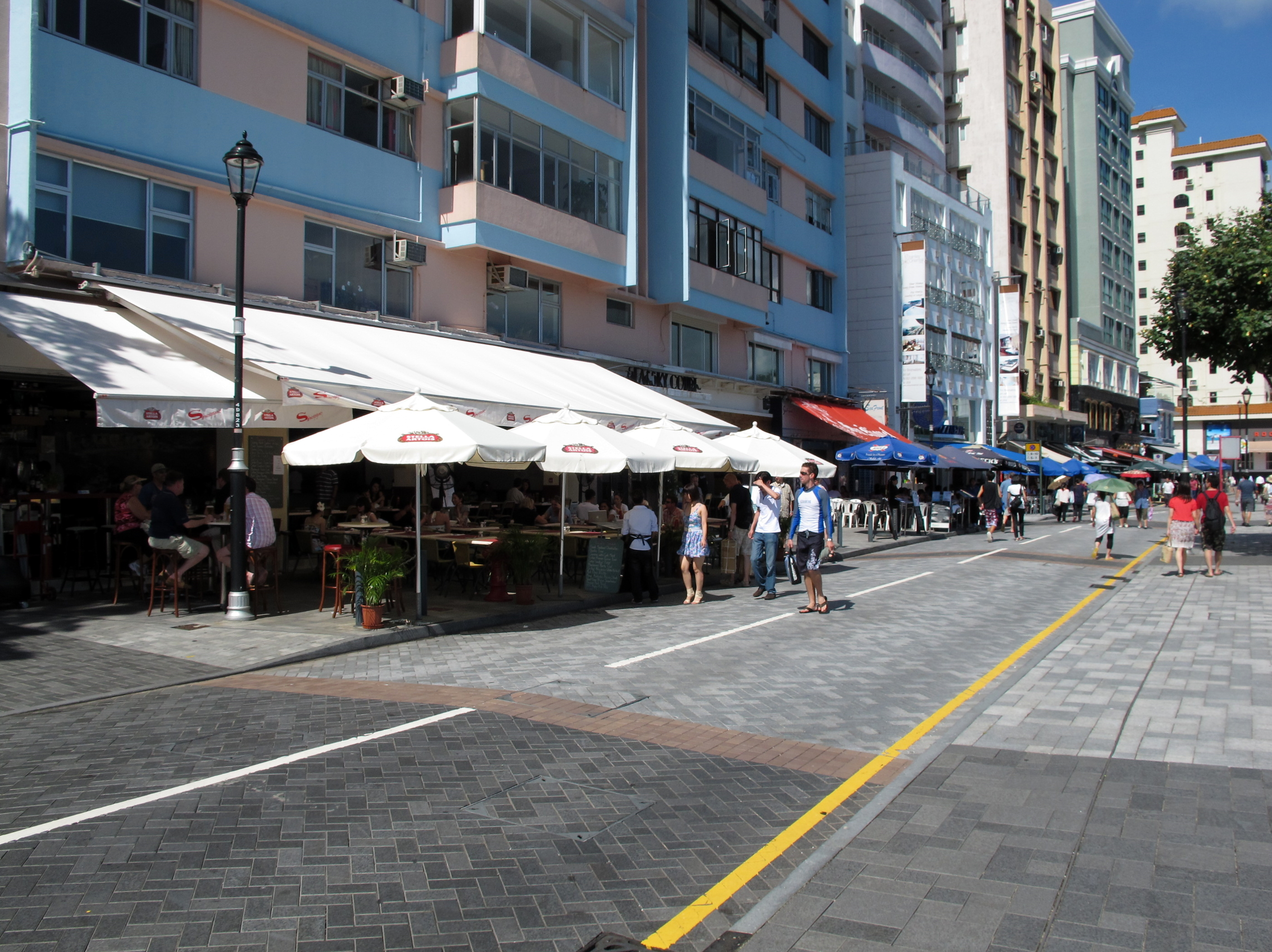 Stanley Main Street